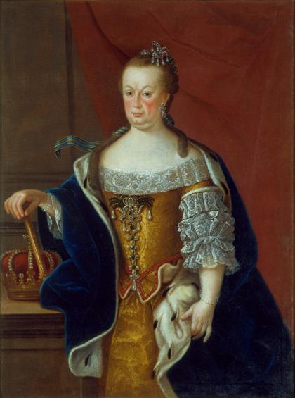 Museu Francisco Tavares Proenca